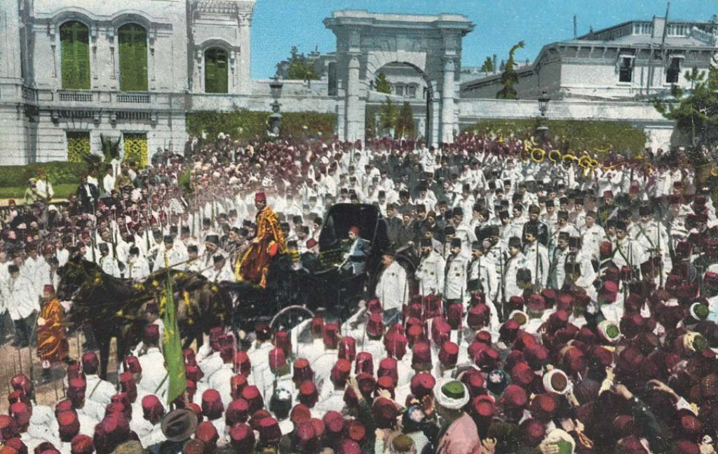 Sultan Hamid is going to Friday Prayer.